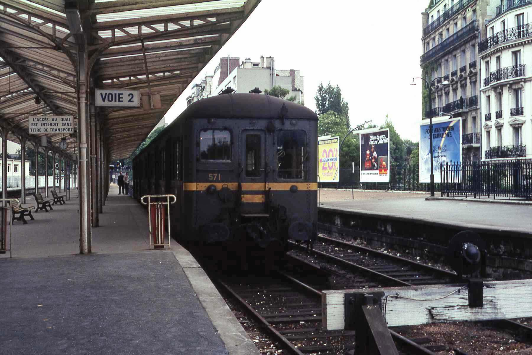 Endstation Porte d'Auteuil of the closed "Ligne d'Auteuil" line. Third rail electrification.